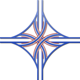 A 4-level stack interchange